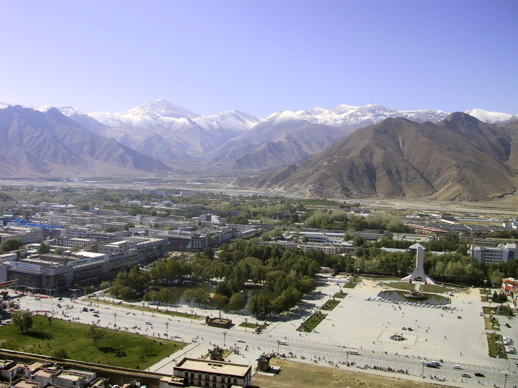 Lhasa Zhol Pillar